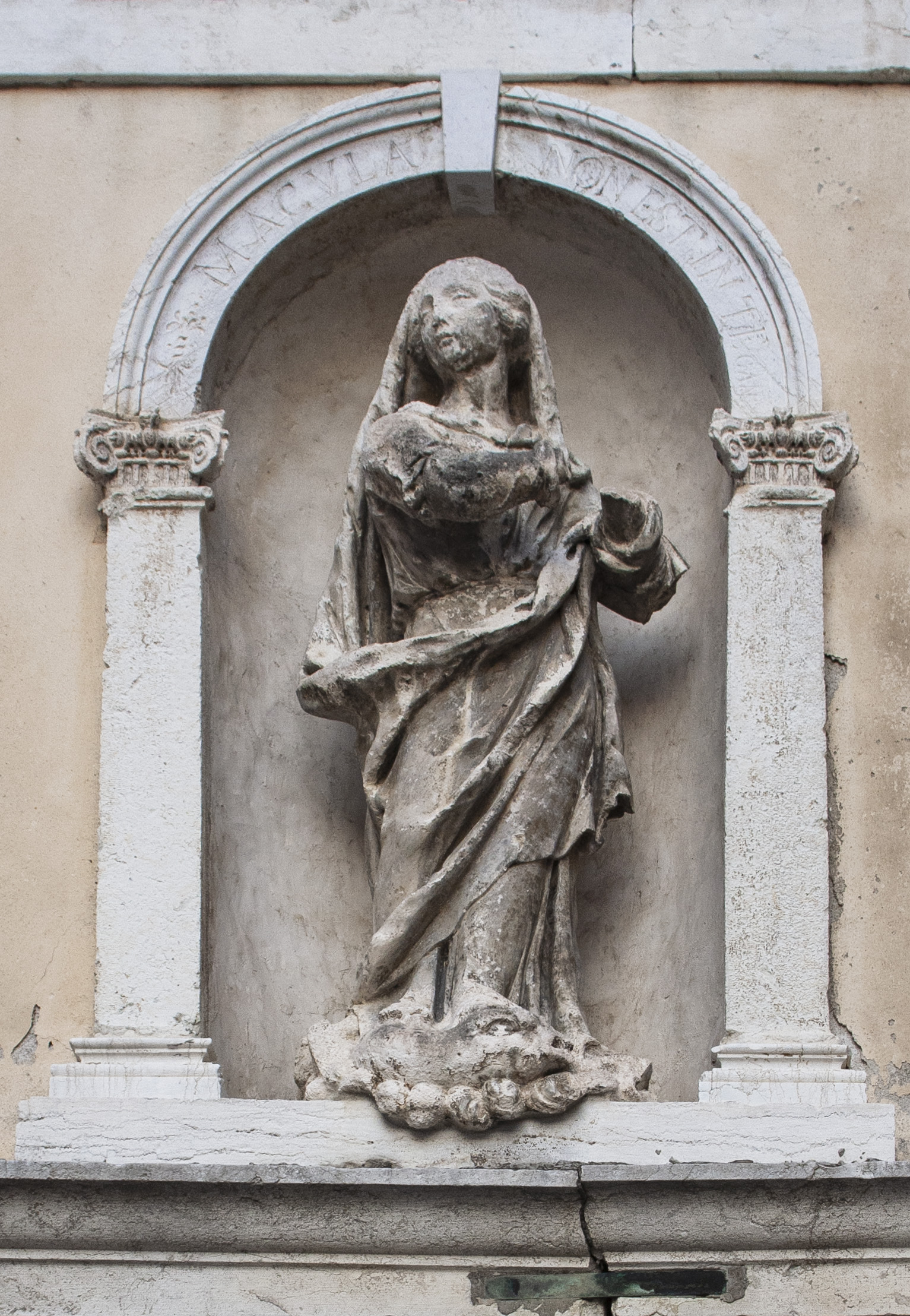 St Mary Immaculate